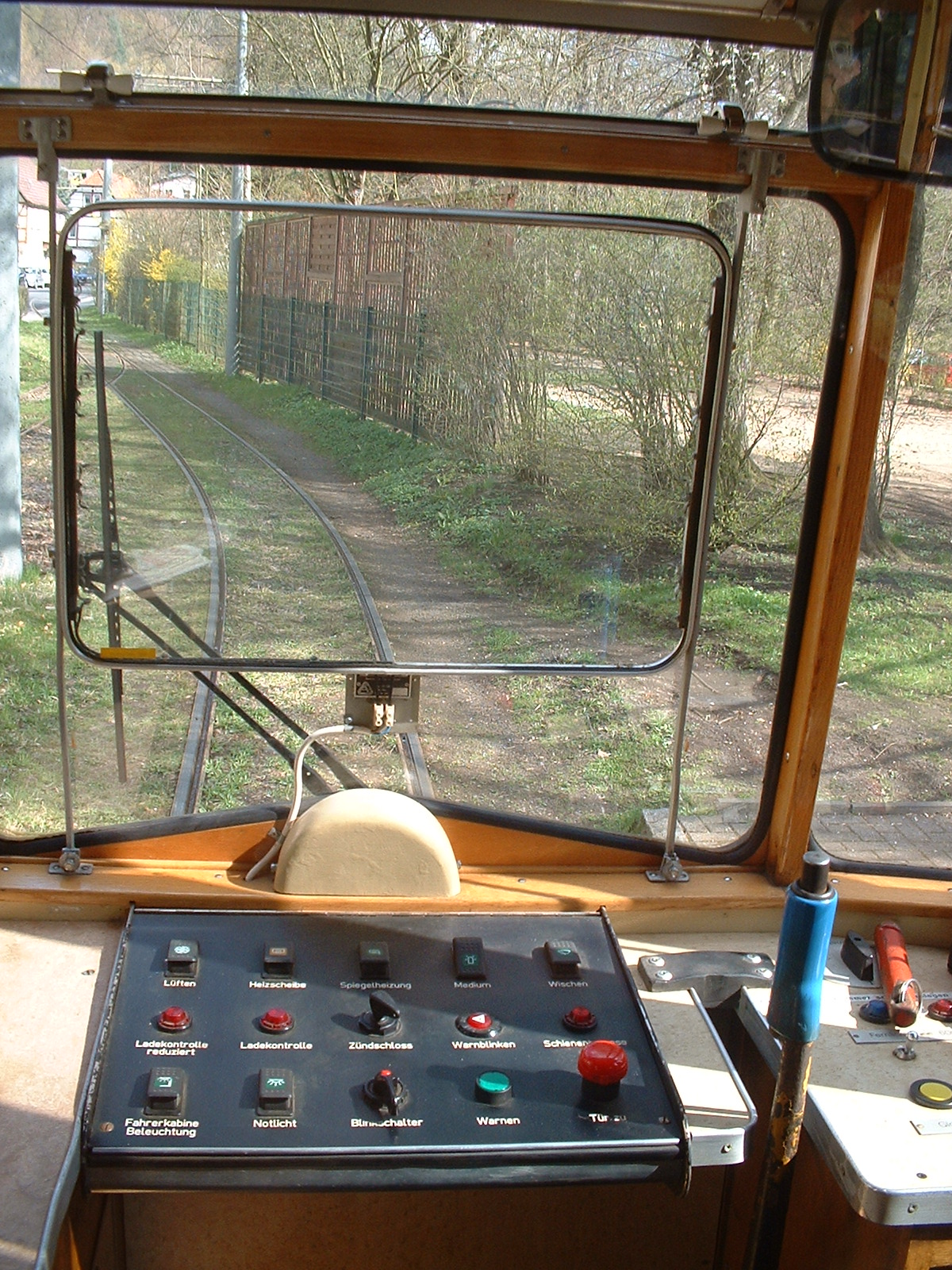 Bad Schandau - The driver's cab of a car of the Kirnitzschtalbahn near Bad Schandau